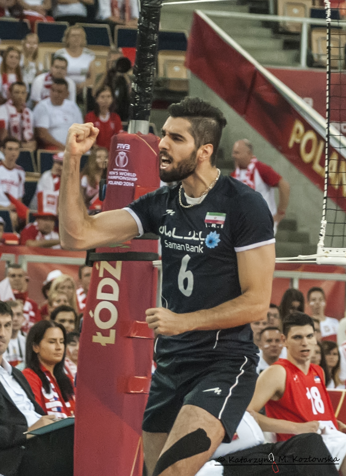 Mohammad Mousavi playing for Iran in 2014 FIVB Volleyball World Championship in Poland.